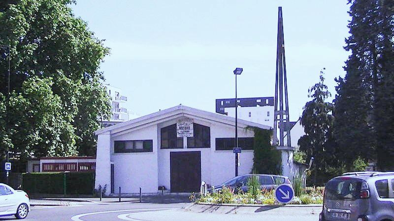 Mosquée el-Fourqan, Quai Malakoff, Nantes